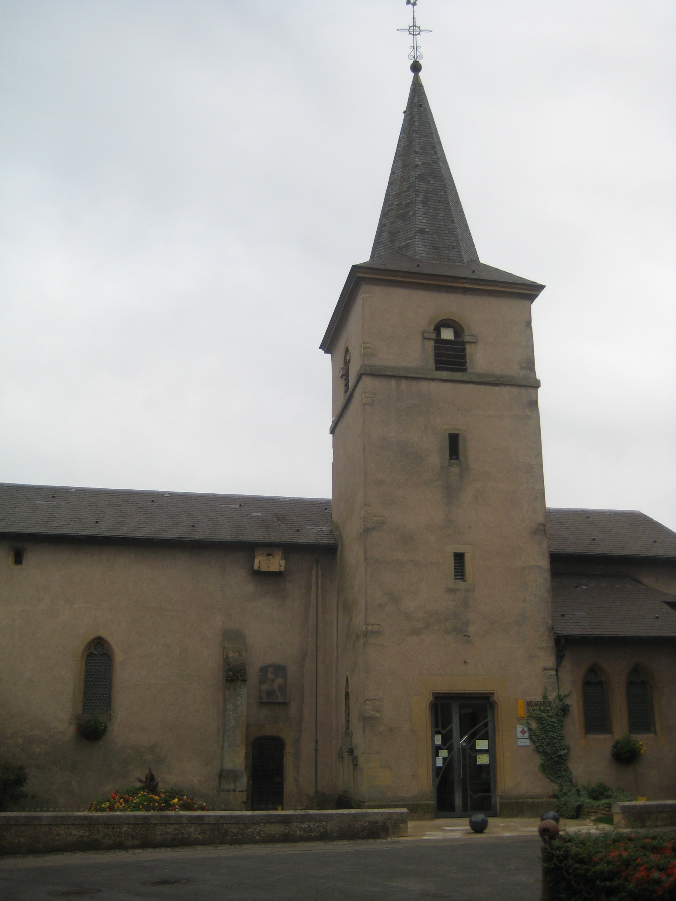 Description ancienne eglise Gandrange Date25 August 2011Sourcemon appareil photoAuthorAimelaimePermission (Reusing this file) ancienne eglise Gandrange